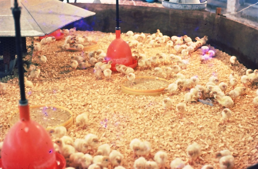 Gan-Shmuel - chicks in the coop 1971, Events in Israel